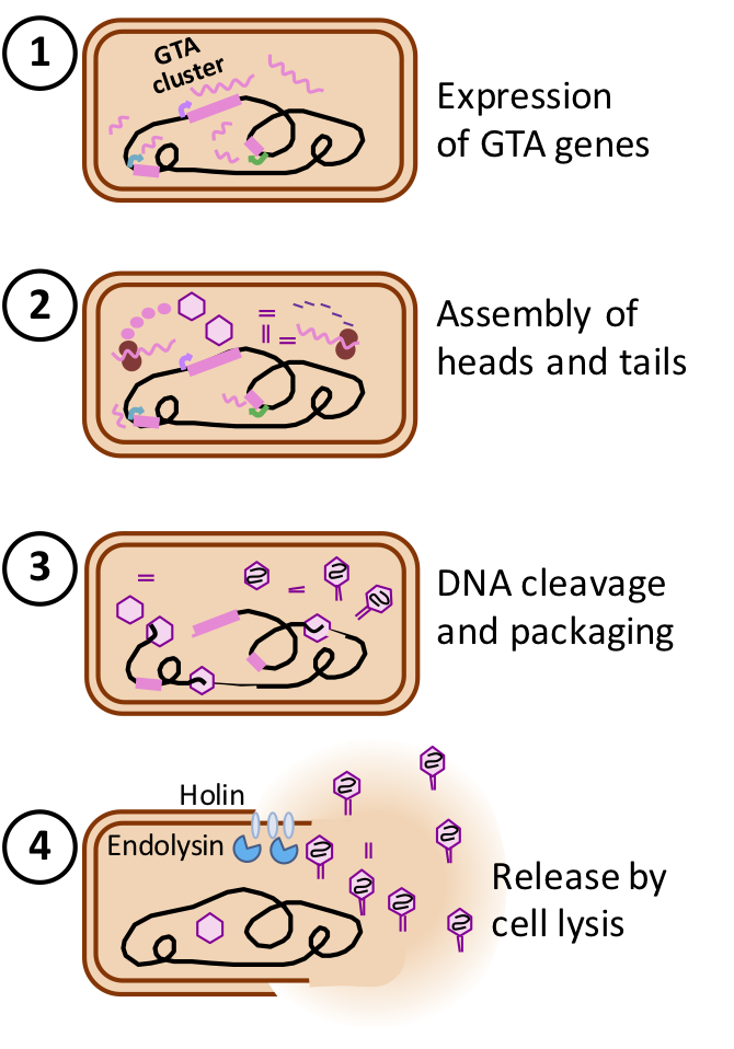 Schematic diagram showing steps in the production of bacterial Gene Transfer Agents.